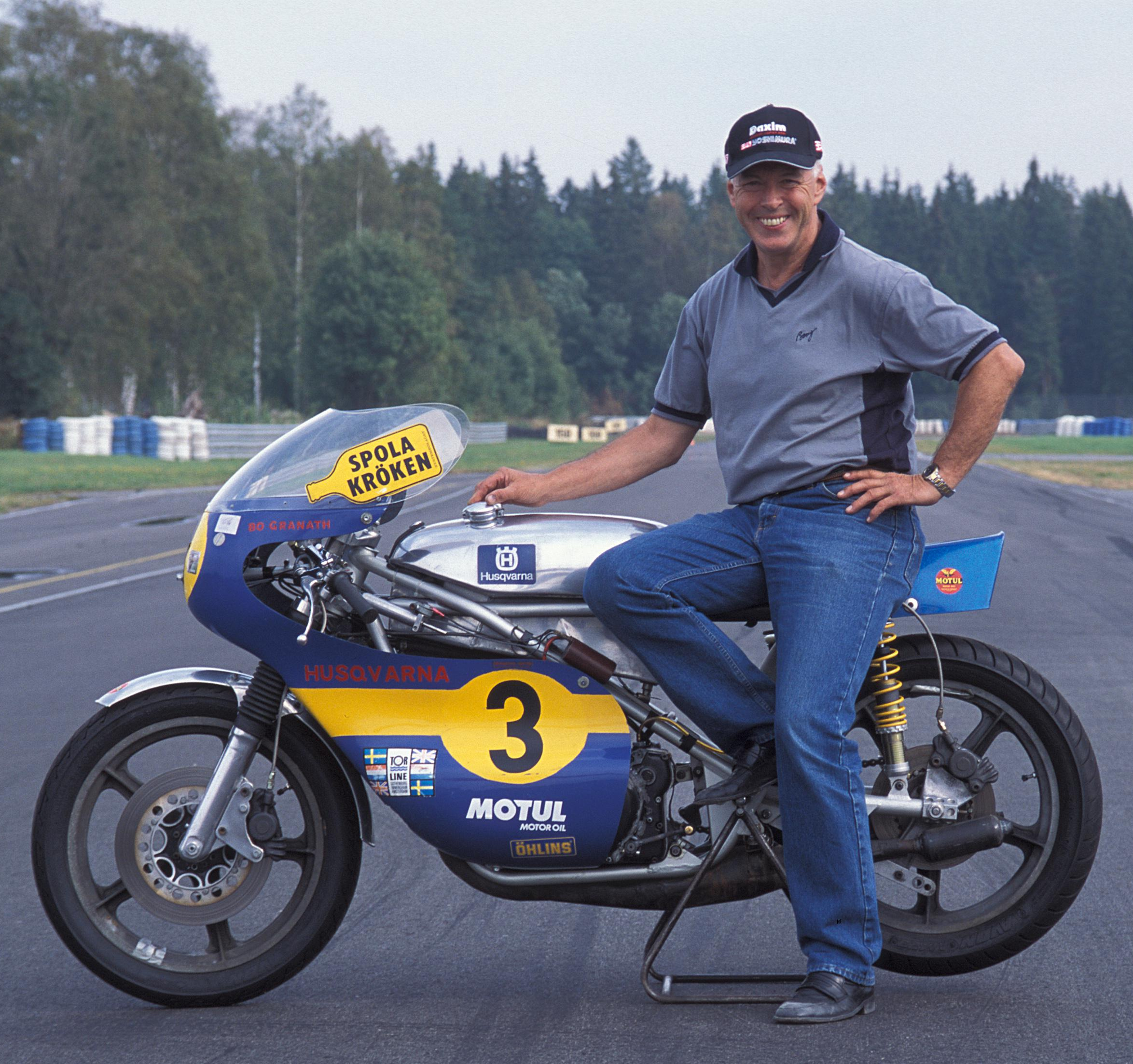 Bo Granath with his 500 Husqvarna GP which brought him to finish in 5th place in the 1972 road-racing World Championship. Alan Cathcart wrote 2004 the story about Bo and the Husqvarna which was published in many countries, England, France, Spain, New Zeeland and Sweden.